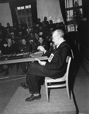 Dr. Klaus Karl Schilling, a physician who infected over one thousand prisoners with malaria in his experiments at the Dachau camp, defends himself at the trial of former camp personnel and prisoners from Dachau.